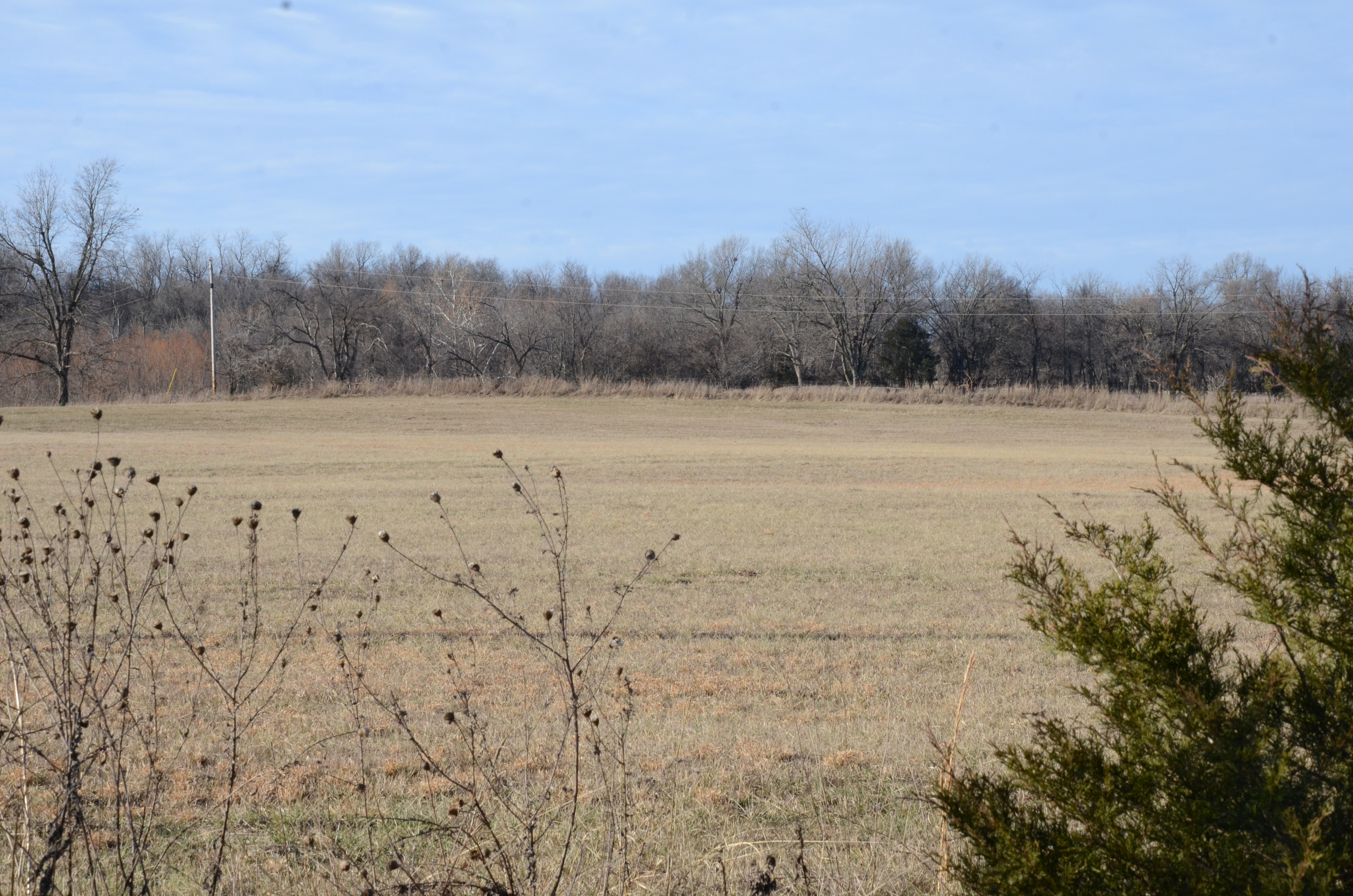 Cane Hill Battlefield, Area surrounding Highway 45 and County Roads 291, 8, 284, and 285 Canehill